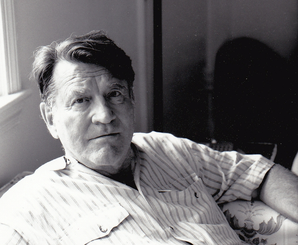 Jay Haley in the early 1990's, Bethesda, Maryland, photograph by James Keim